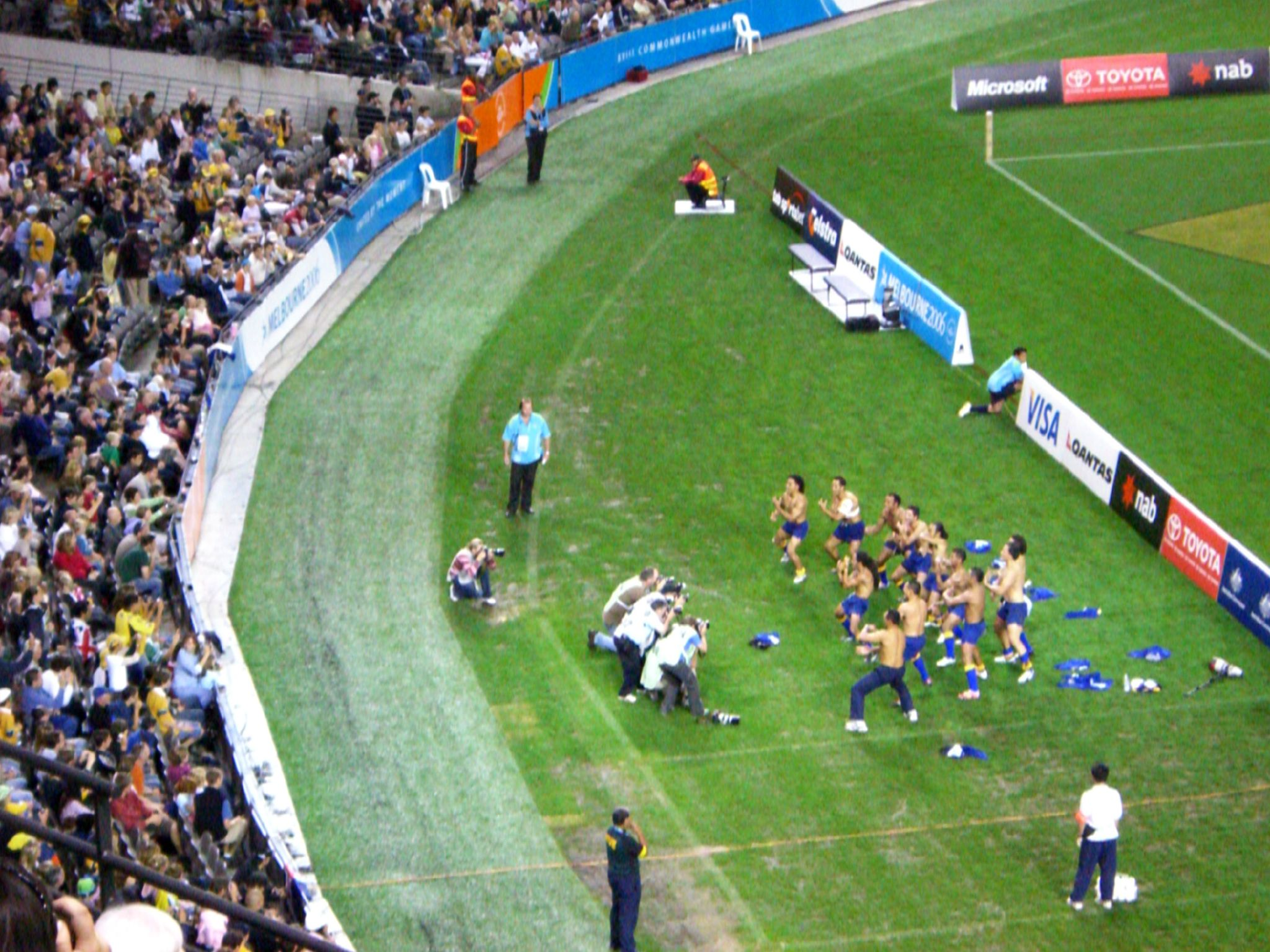 The Niue Island team performs a meke dance after winning the competition.